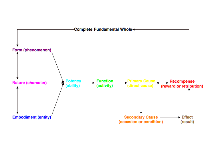 Complex of the Ten Suchnesses. Design and wording based on Niwano (1976).